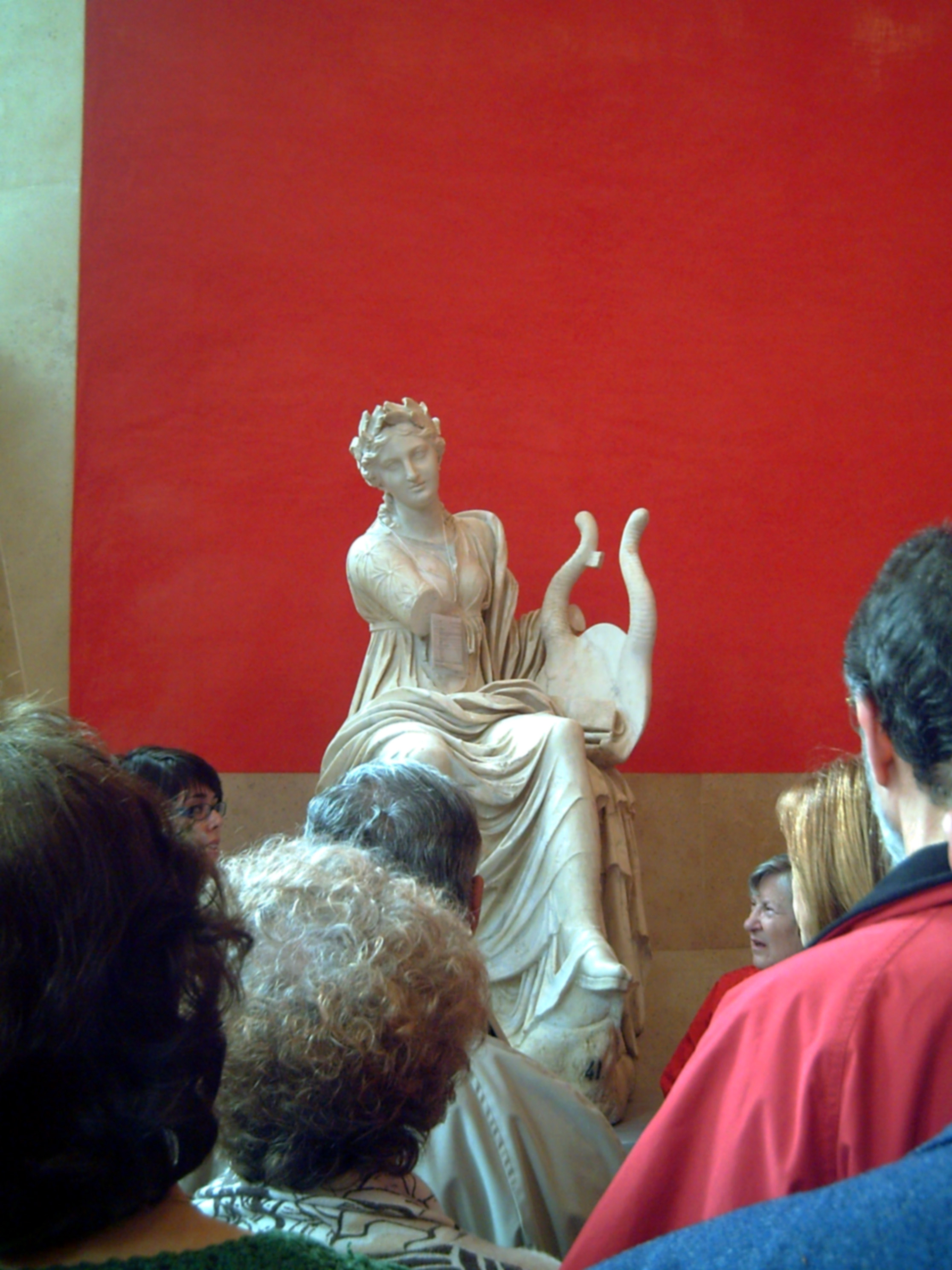 The Muse Terpsichore. Roman statue based on an Attic model from 150–100 BC.